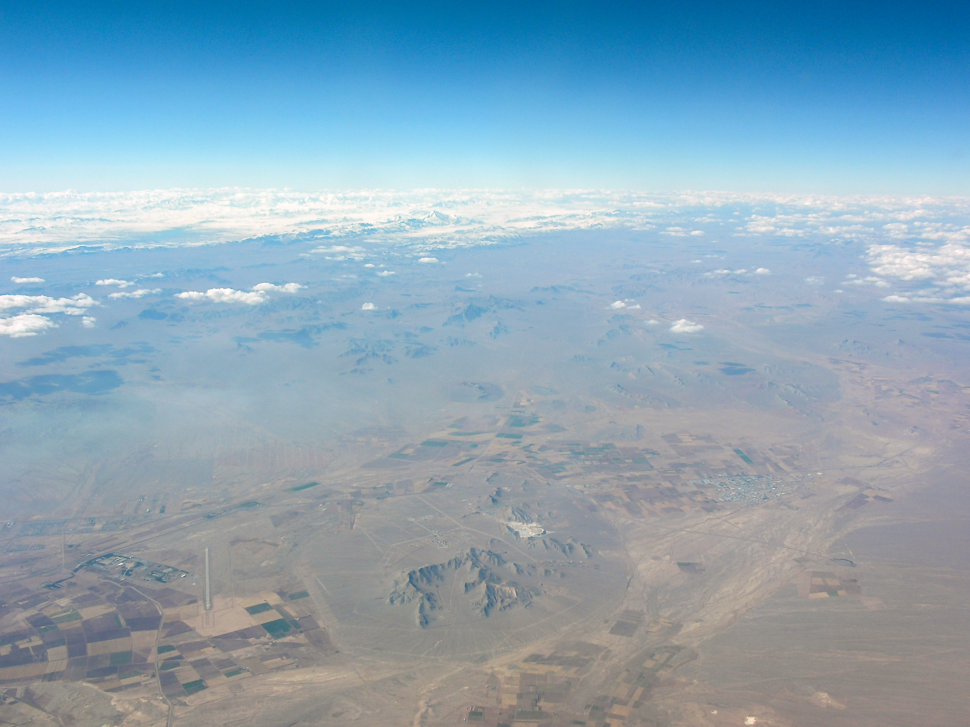 Iran, HESA aircraft factory in Shahinshahr, North of Isfahan.